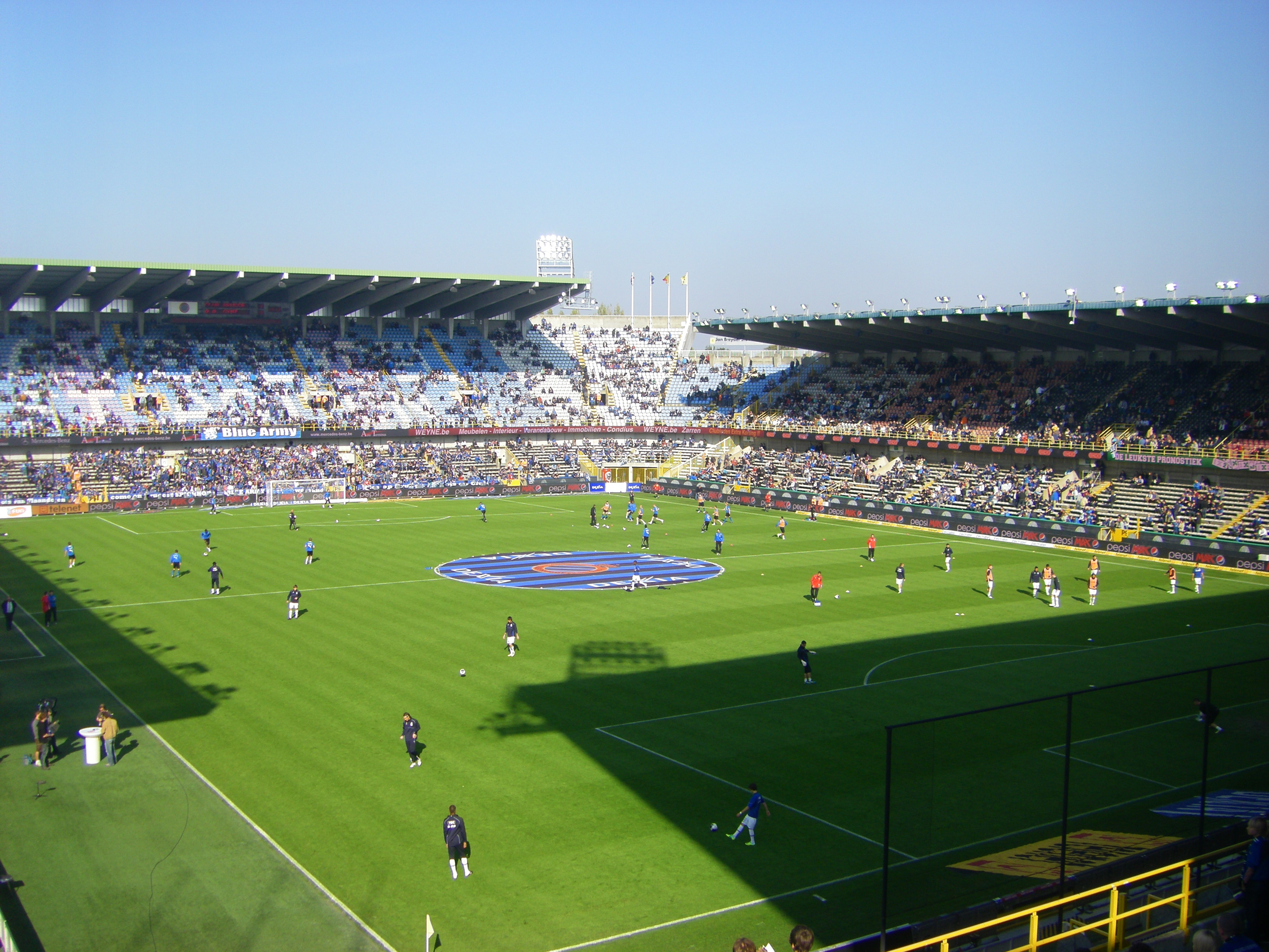 Interior of the Jan Breydelstadium in Brugge, match between Club Brugge - AA Gent, Belgium